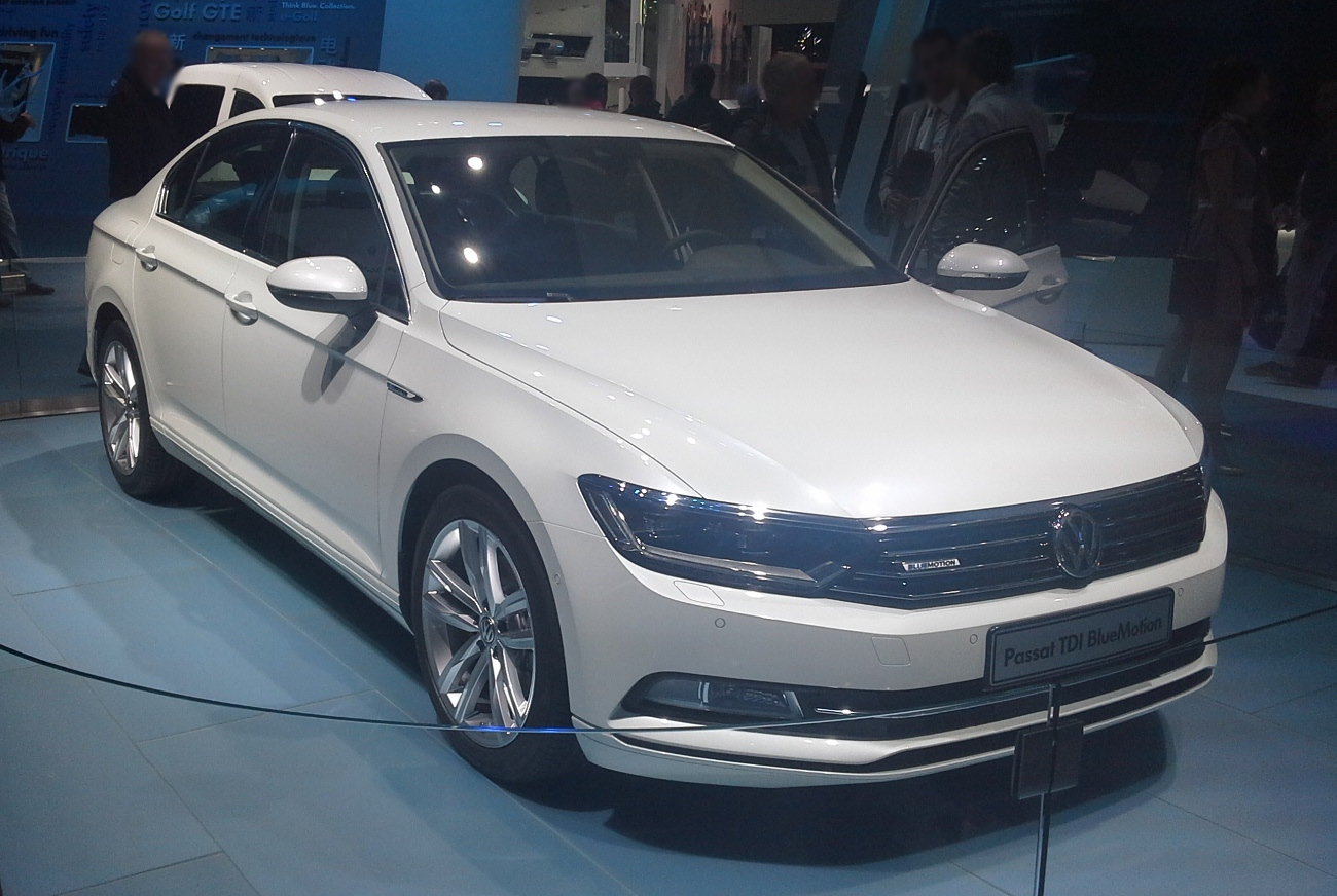 Volkswagen Passat B8 photographed at the Mondial de l'Automobile 2014 in Paris, France.